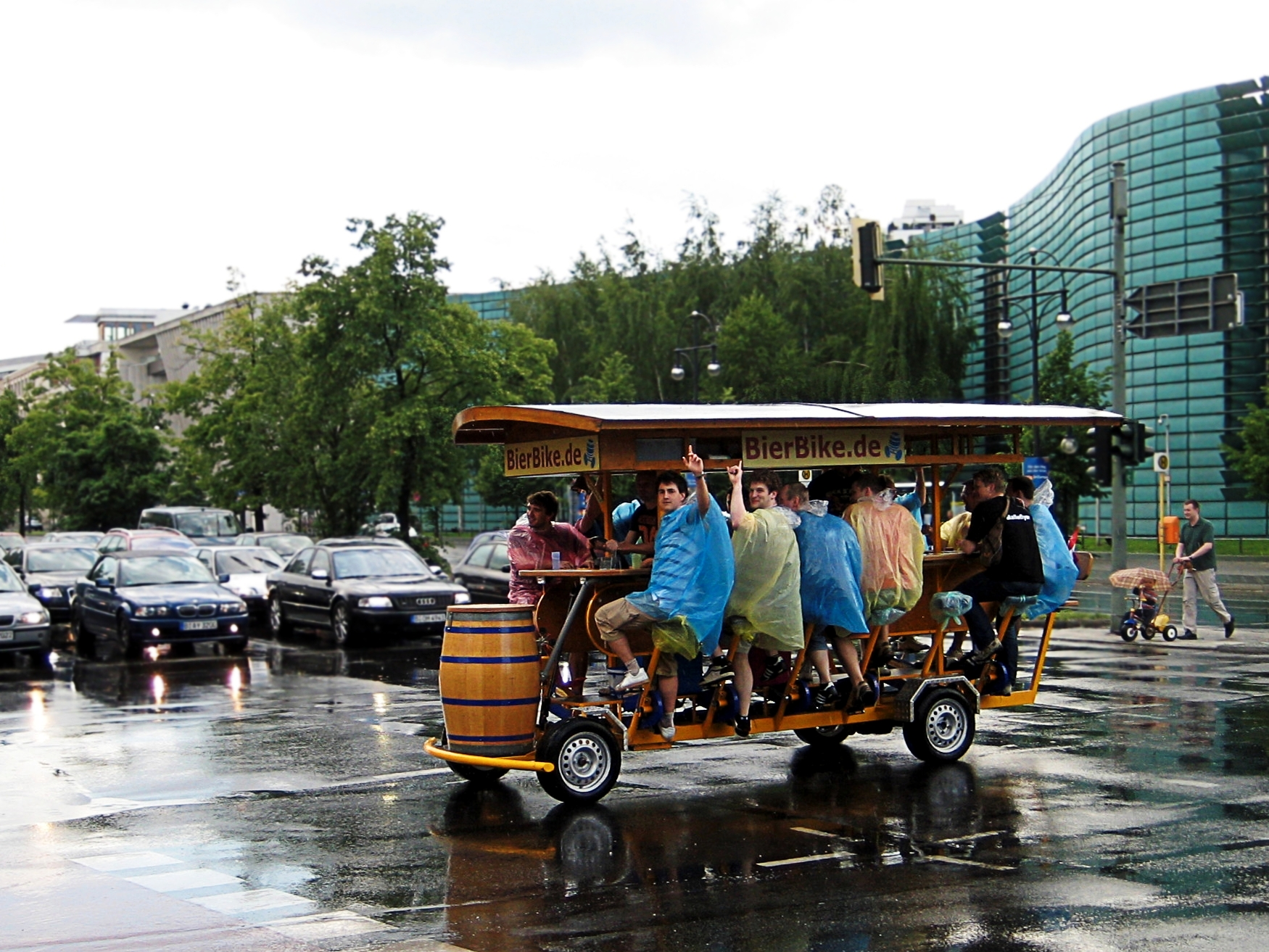 Bier-Bike in Berlin on the street